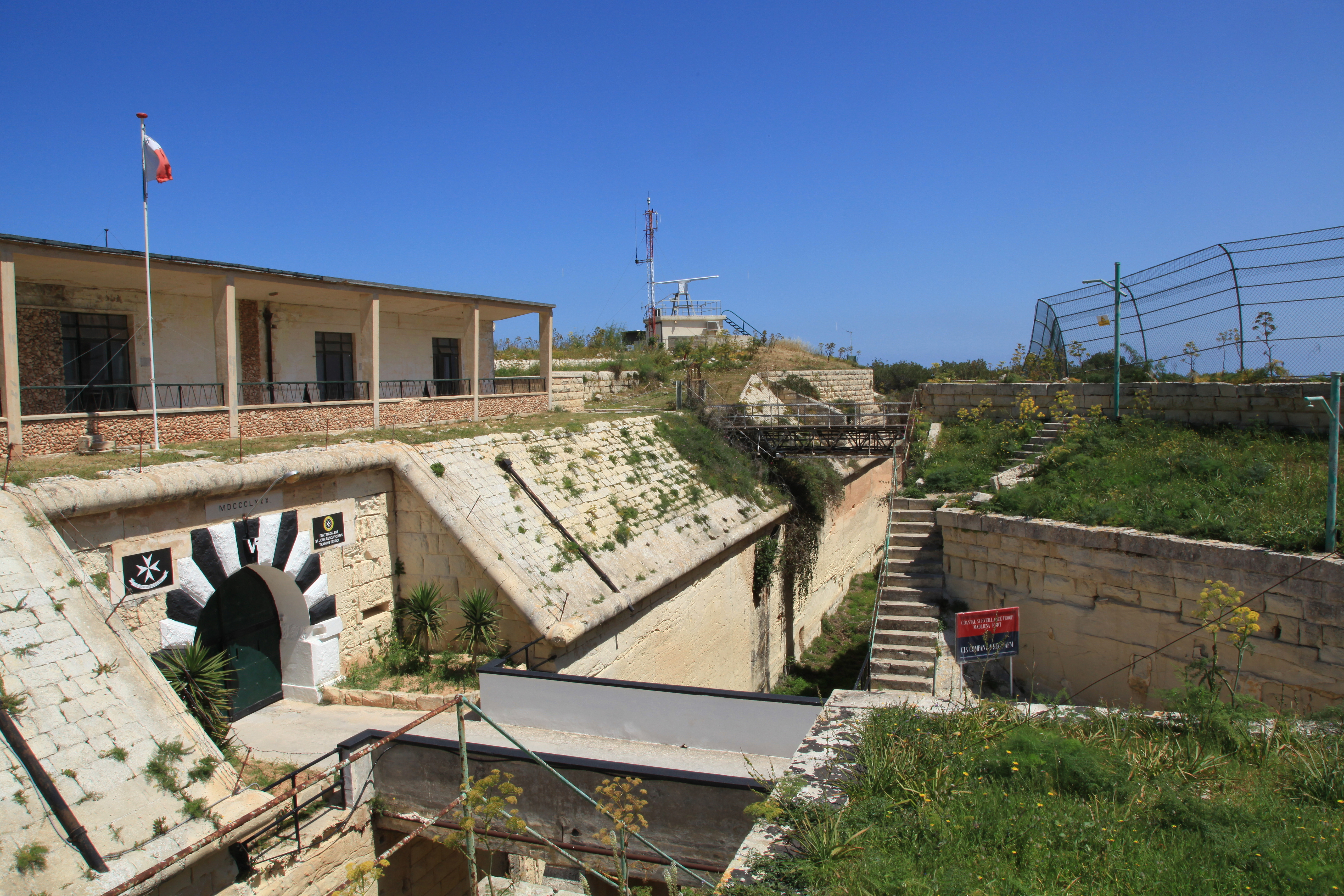 Fort Madliena, Triq il-Madliena in Swieqi, Malta